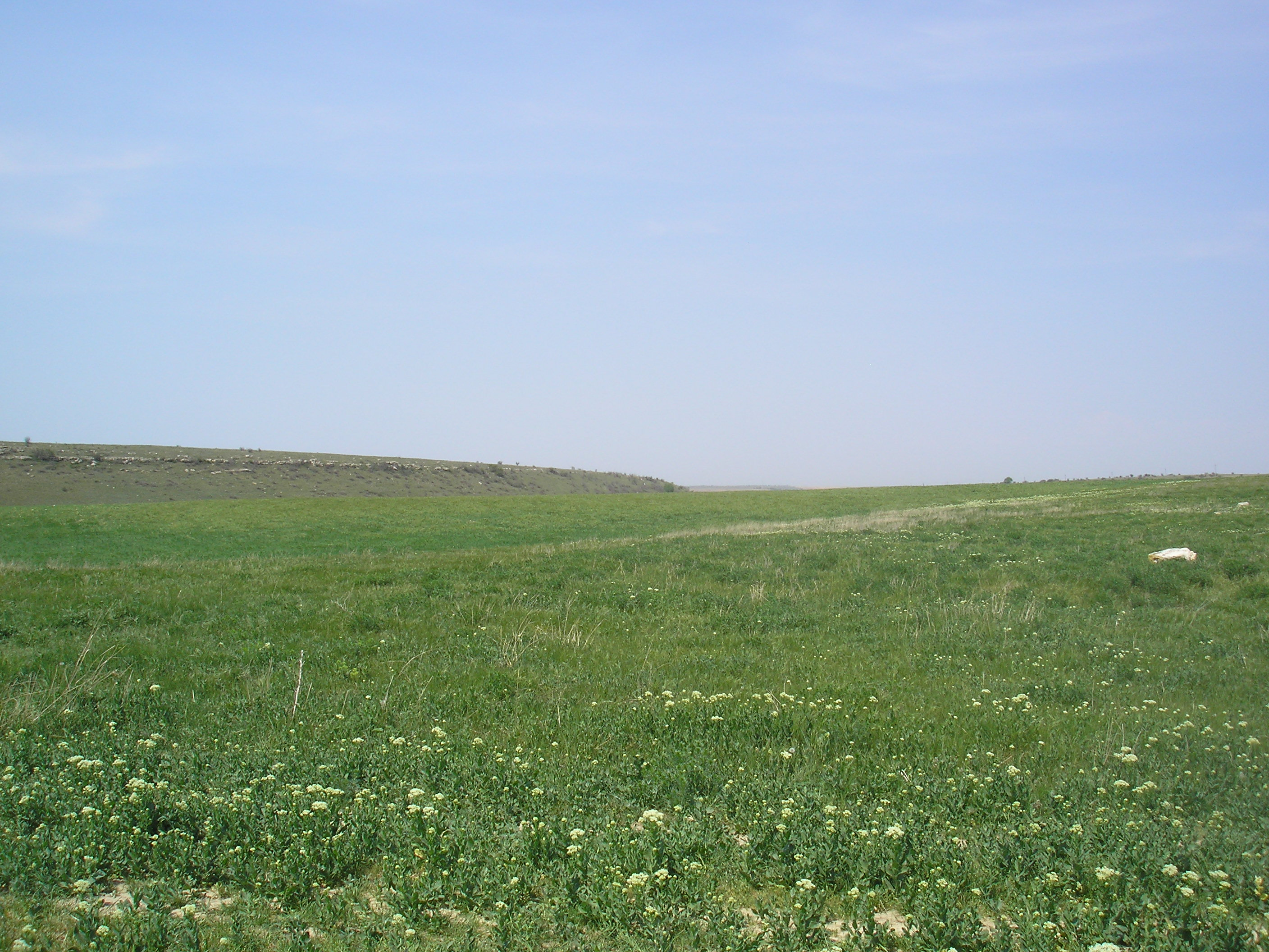 Location of the disappeared village of Evel-Sheyh, Bakhchisaray district, Crimea